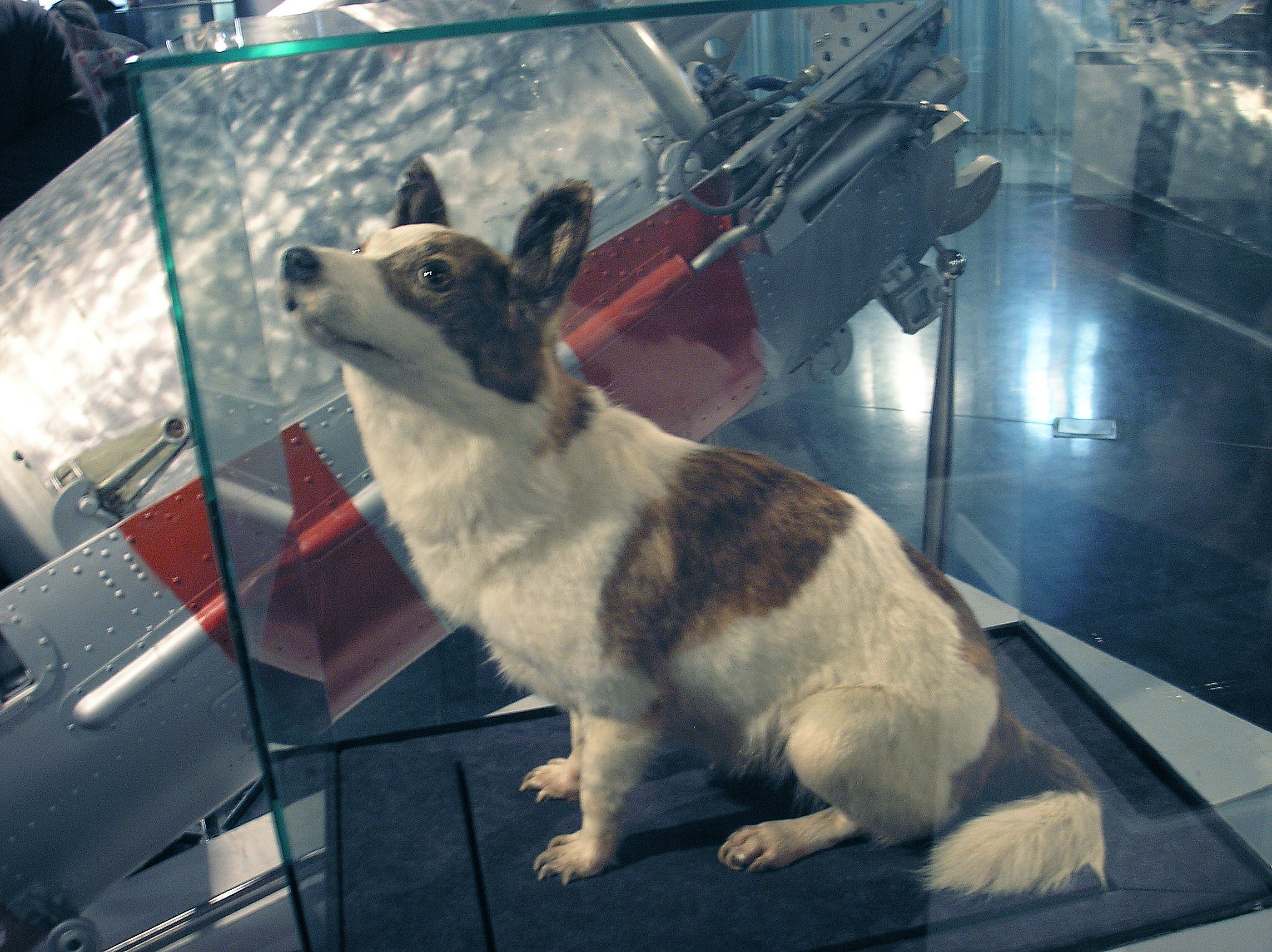 Soviet Space dog Strelka